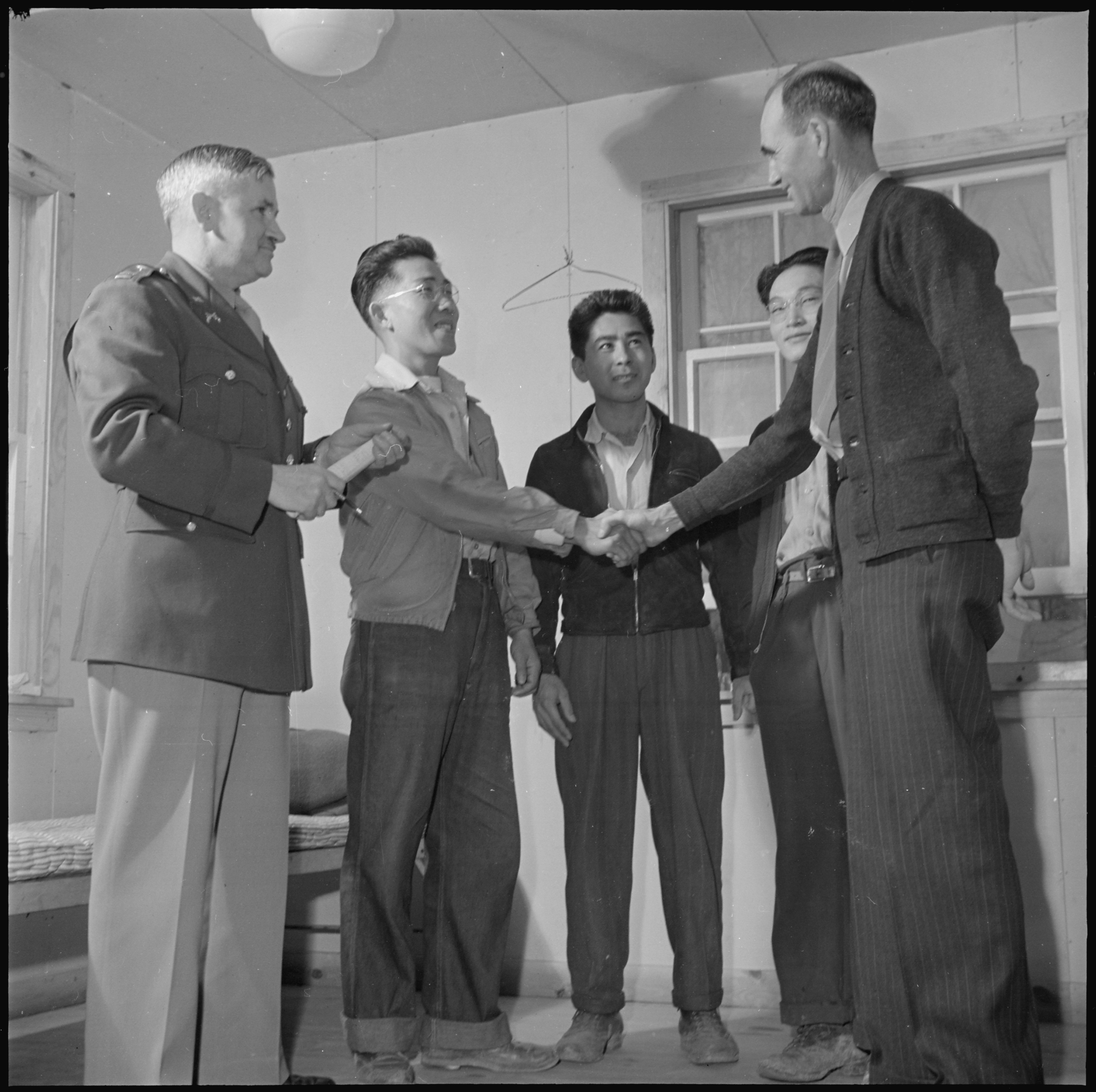 Scope and content: The full caption for this photograph reads: Rohwer Relocation Center, McGehee, Arkansas. Center Director Ray Johnston, right, congratulates George Kiwashima on his voluntary enlistment in the United States Army, while Captain John Holbrook and two other volunteers look on.